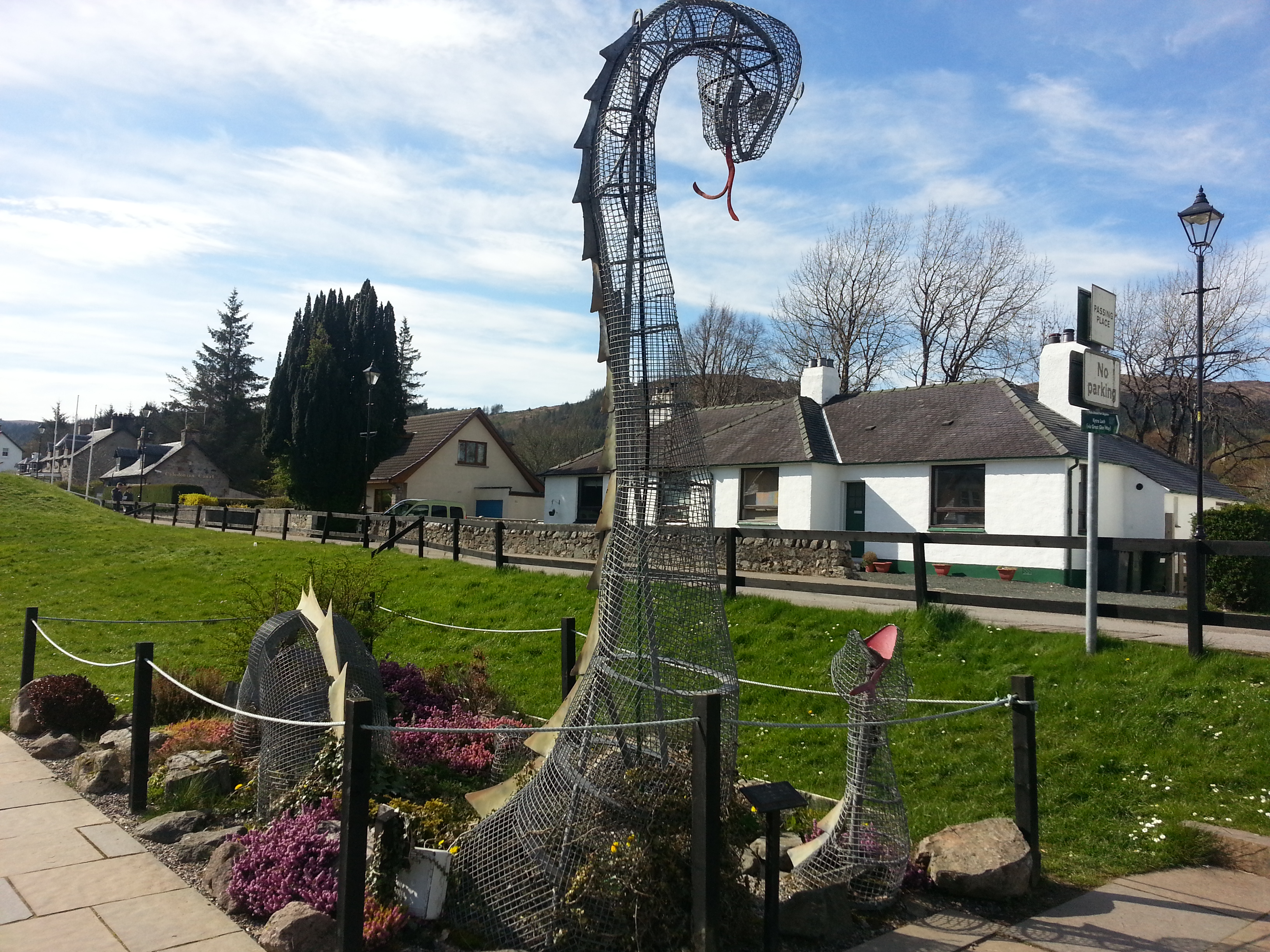 Loch Ness Monster